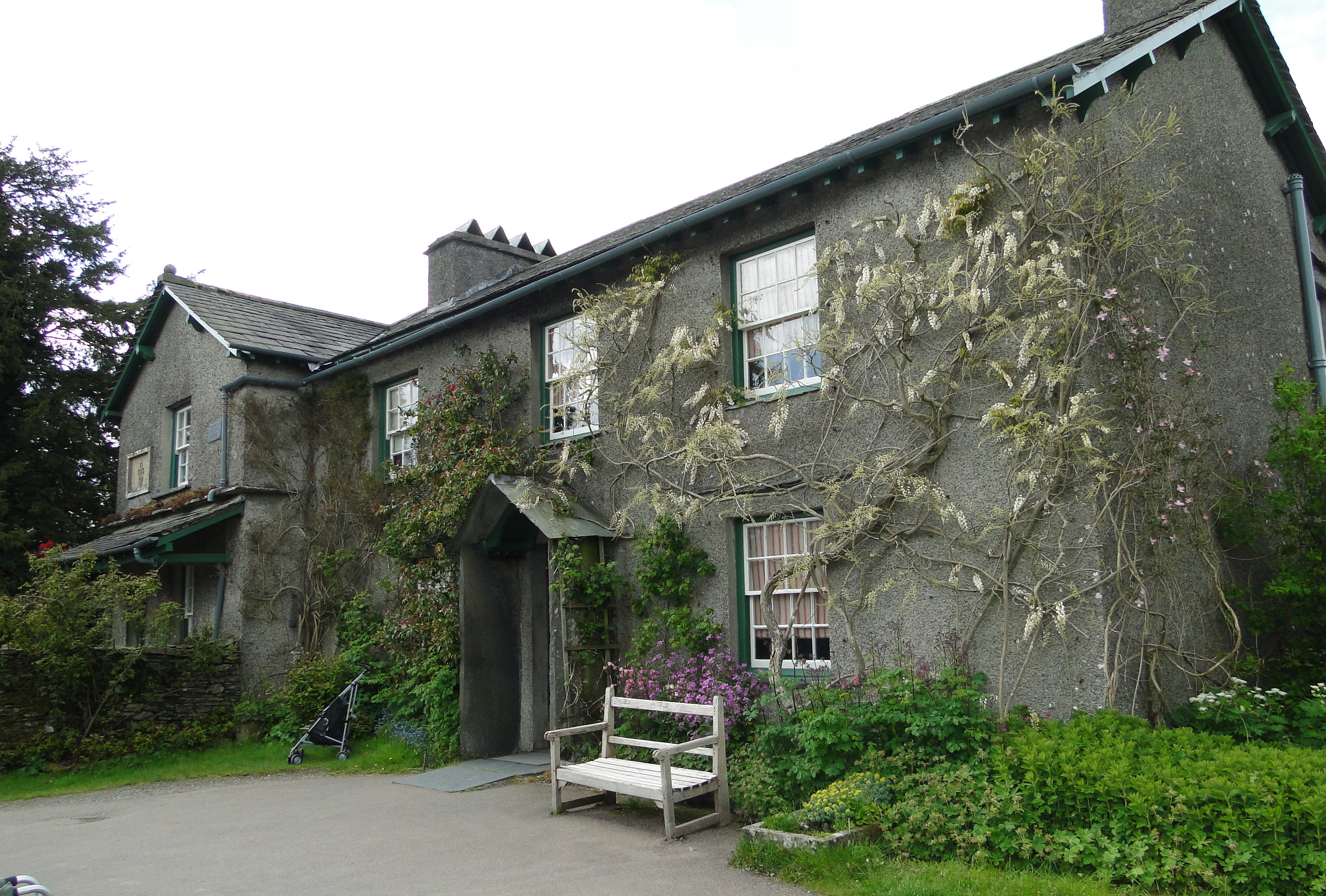 Hill Top, Near Sawrey, Cumbria in 2012. The former home of Beatrix Potter now owned by The National Trust. Potter wrote many of her stories here. Characters such as Tom Kitten, Samuel Whiskers and Jemima Puddleduck were all created here, and the books contain many pictures based on the house and garden. Many of the features of the house used in the book illustrations, such as the kitchen range seen in The Tale of Samuel Whiskers, can still be seen today. This view of the house shows the front porch, topped with Cumbrian slate, that appears in The Tale of Tom Kitten when Miss Tabitha turns the kittens out into the garden while she makes hot buttered toast, and the chimney pots that are seen in The Tale of Samuel Whiskers